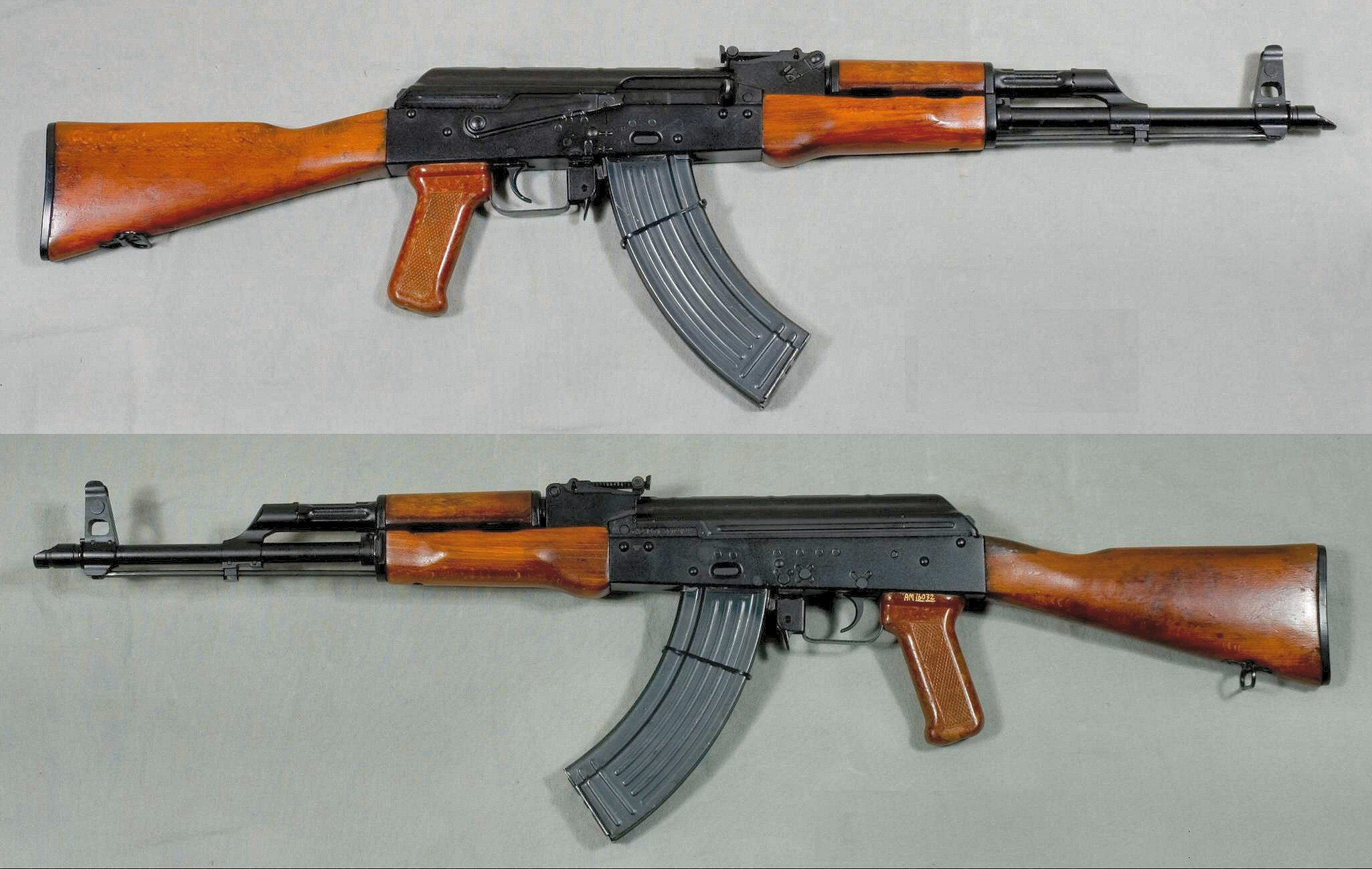 AKM (improved AK47). Caliber 7,62x39mm. A specimen from 1971, from the collections of Armémuseum (Swedish Army Museum), Stockholm, Sweden.